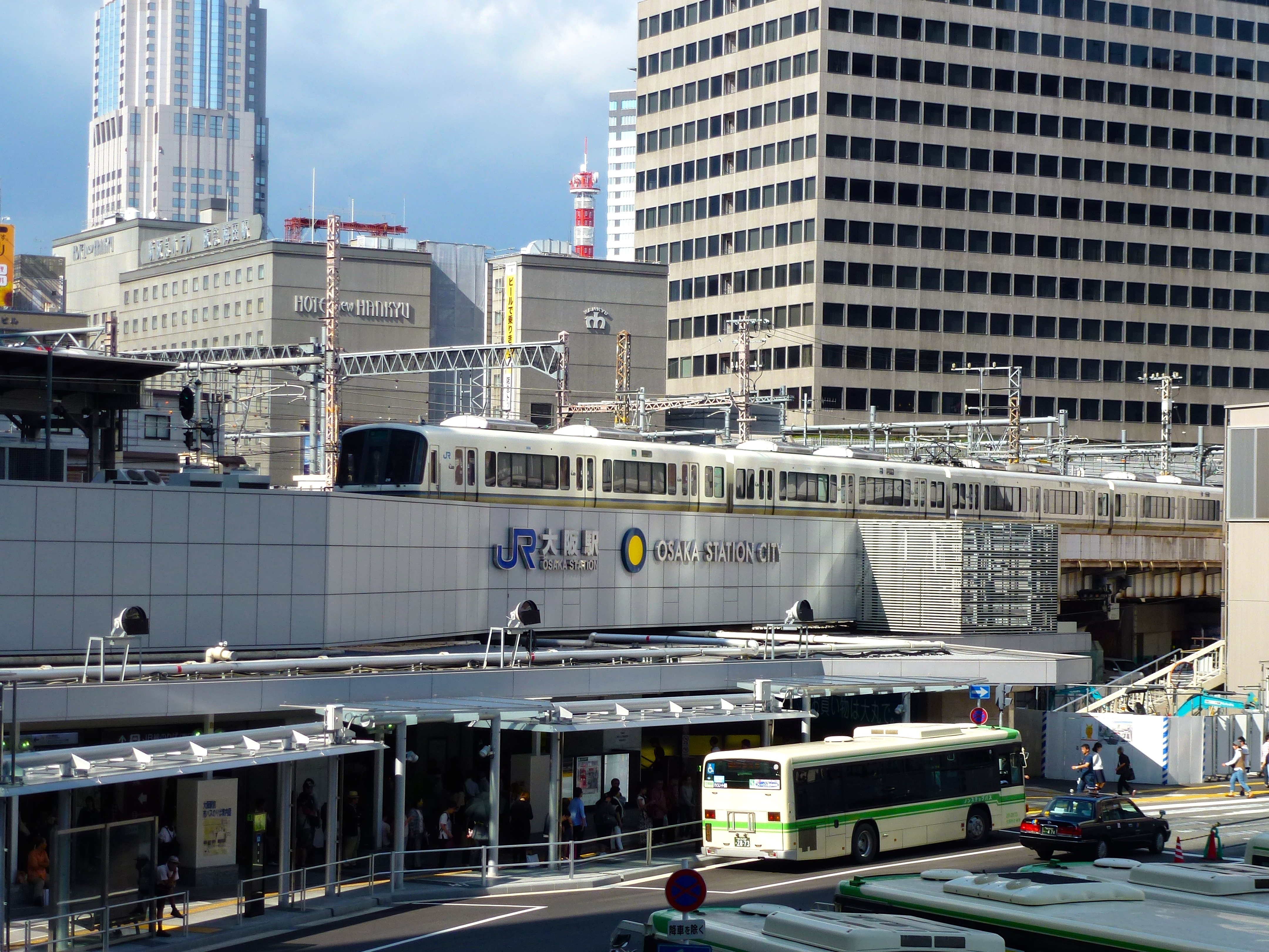 Exterior of Osaka Station, Osaka, Japan